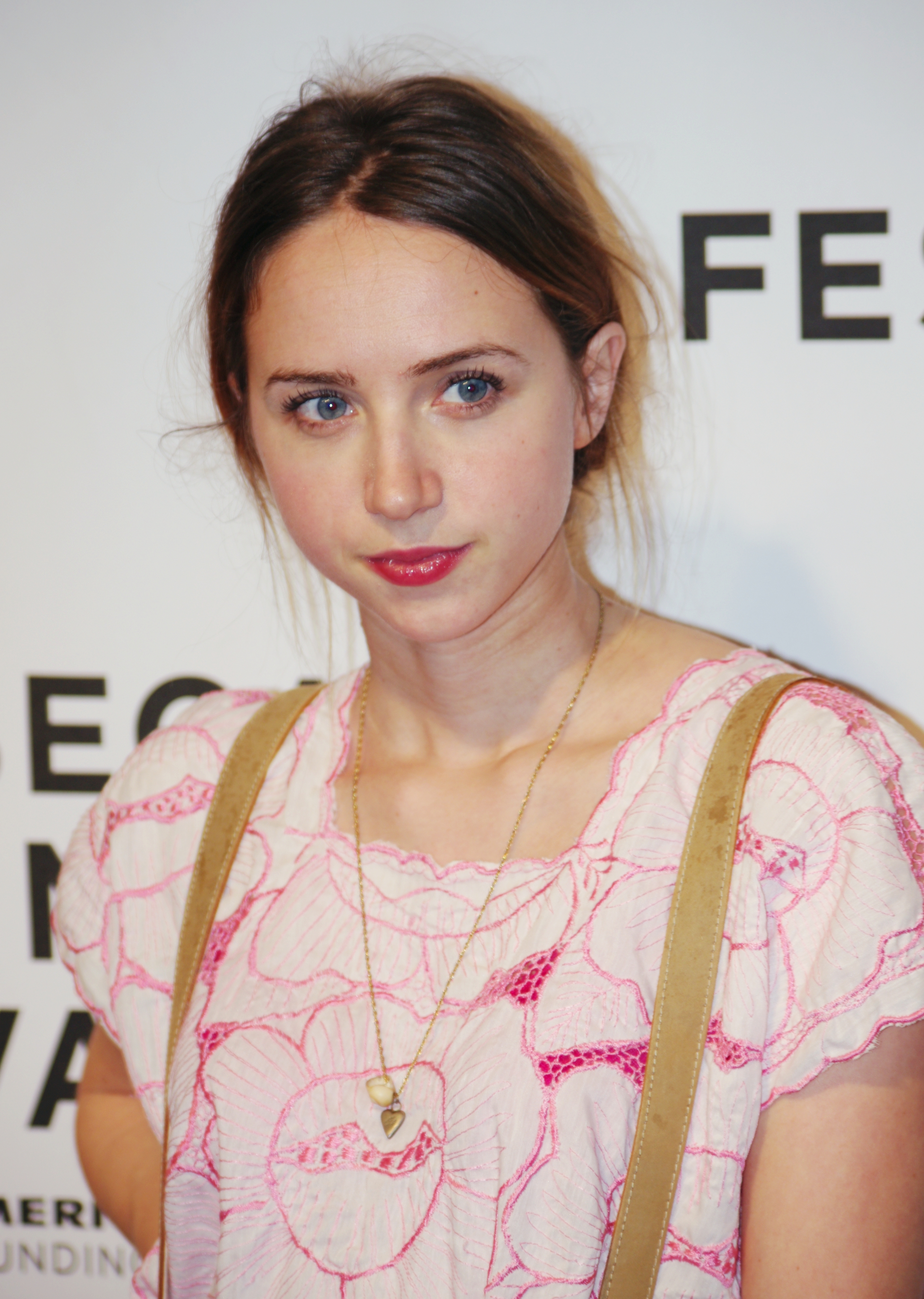 Zoe Kazan attending the premiere of The Union at the 2011 Tribeca Film Festival